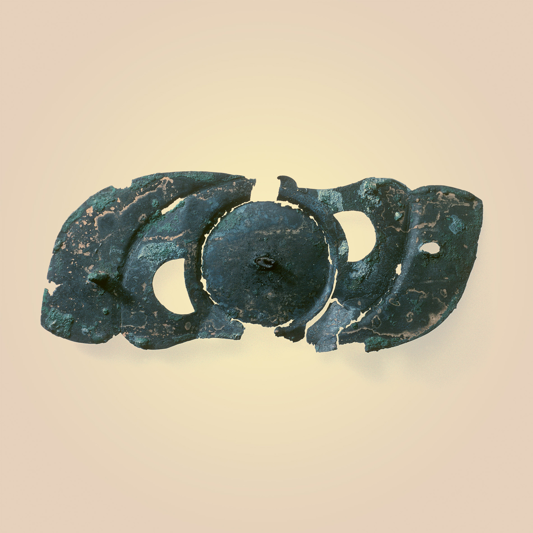 Sheet bronze applied ornament. Middle La Tène (300-100B. C.), La Tène (Neuchâtel). N° inv. MAR-LT-17284. Picture by J. Roethlisberger / Laténium.